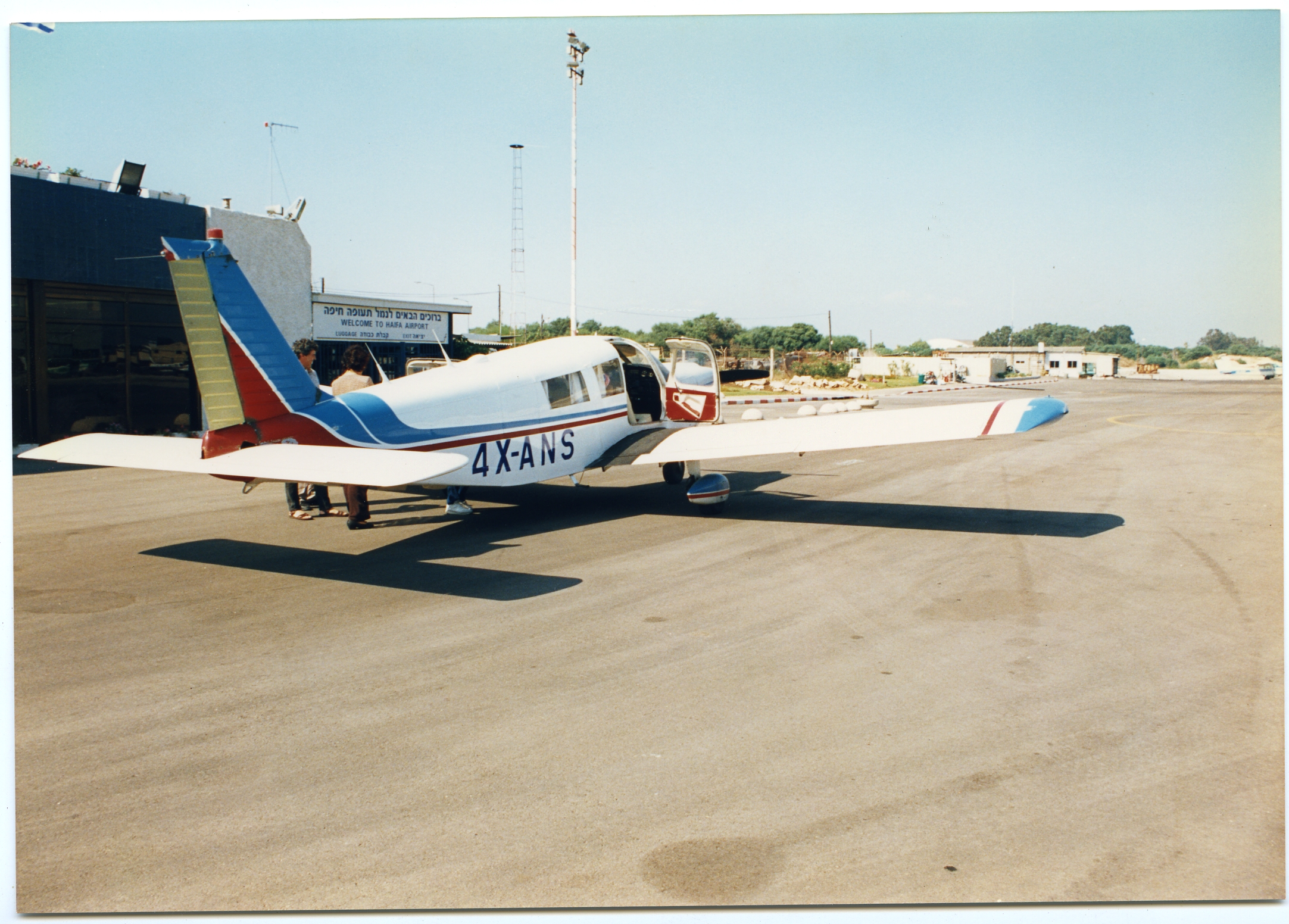 4X-ANS, PA.32-260, at Haifa airport. Crashed at Haifa on April 14, 2011, killing two pilots and a student.